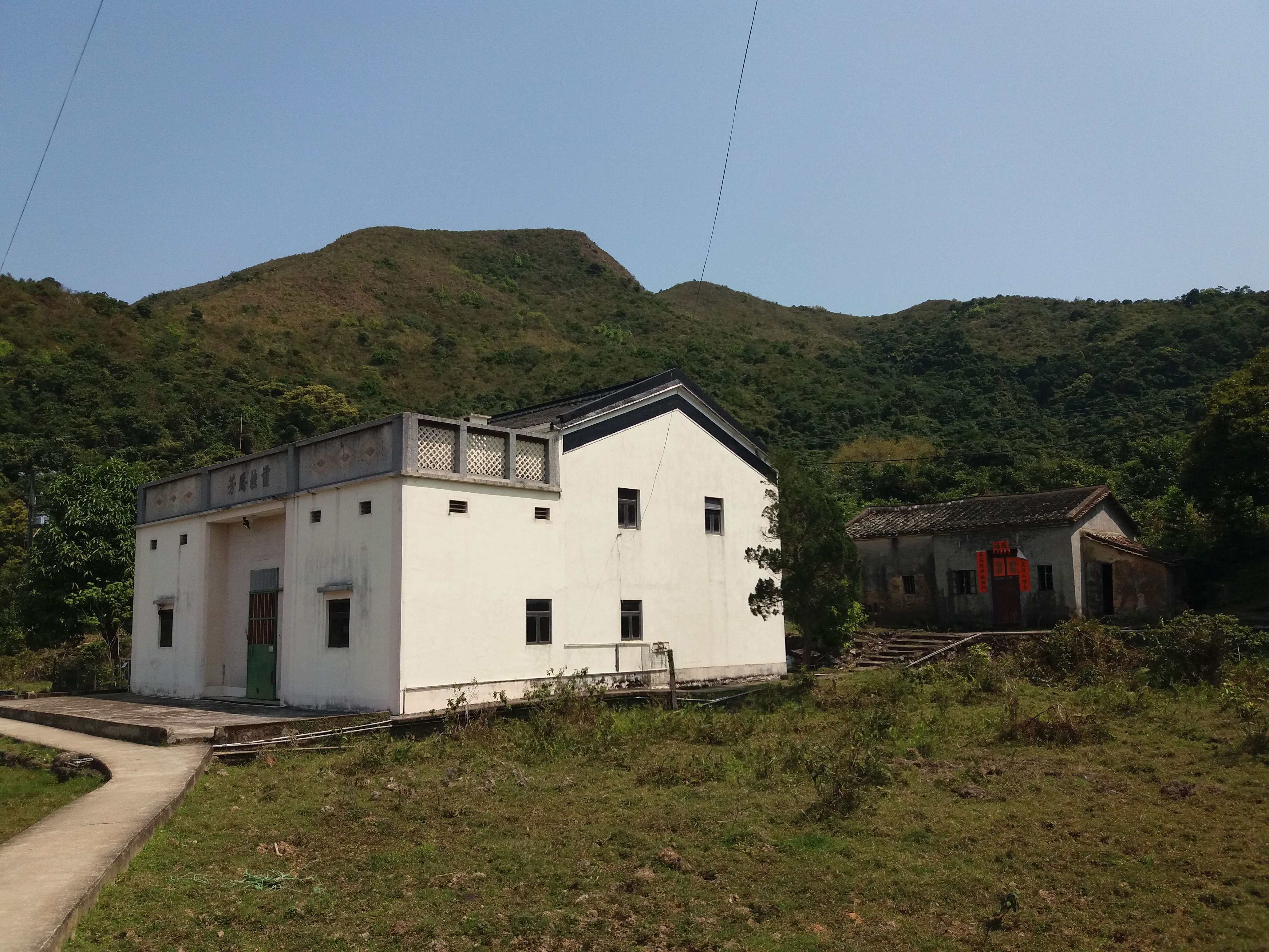 Traditional Houses in Kukpo